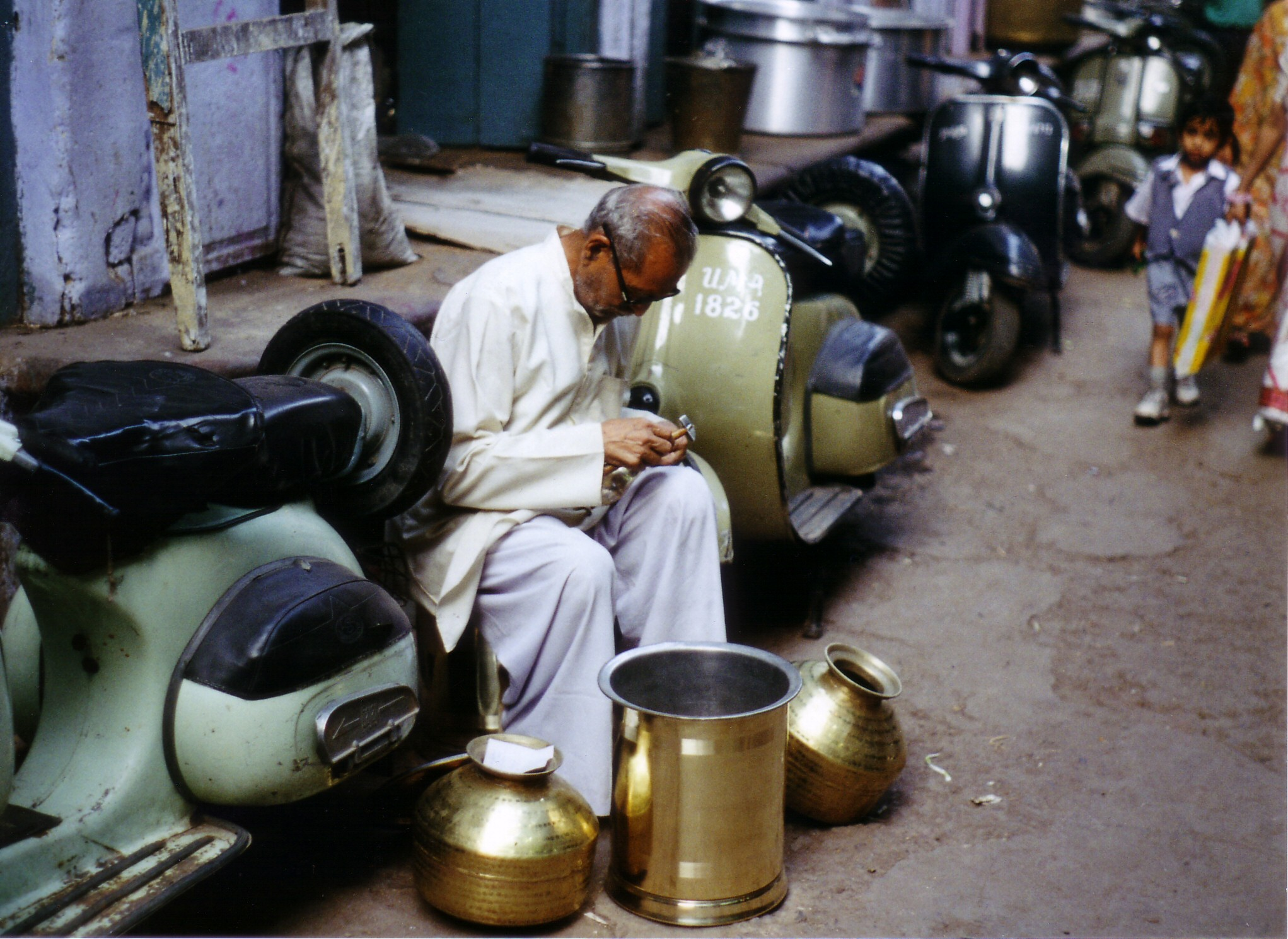 Agra, India, street craft.StreetCraft